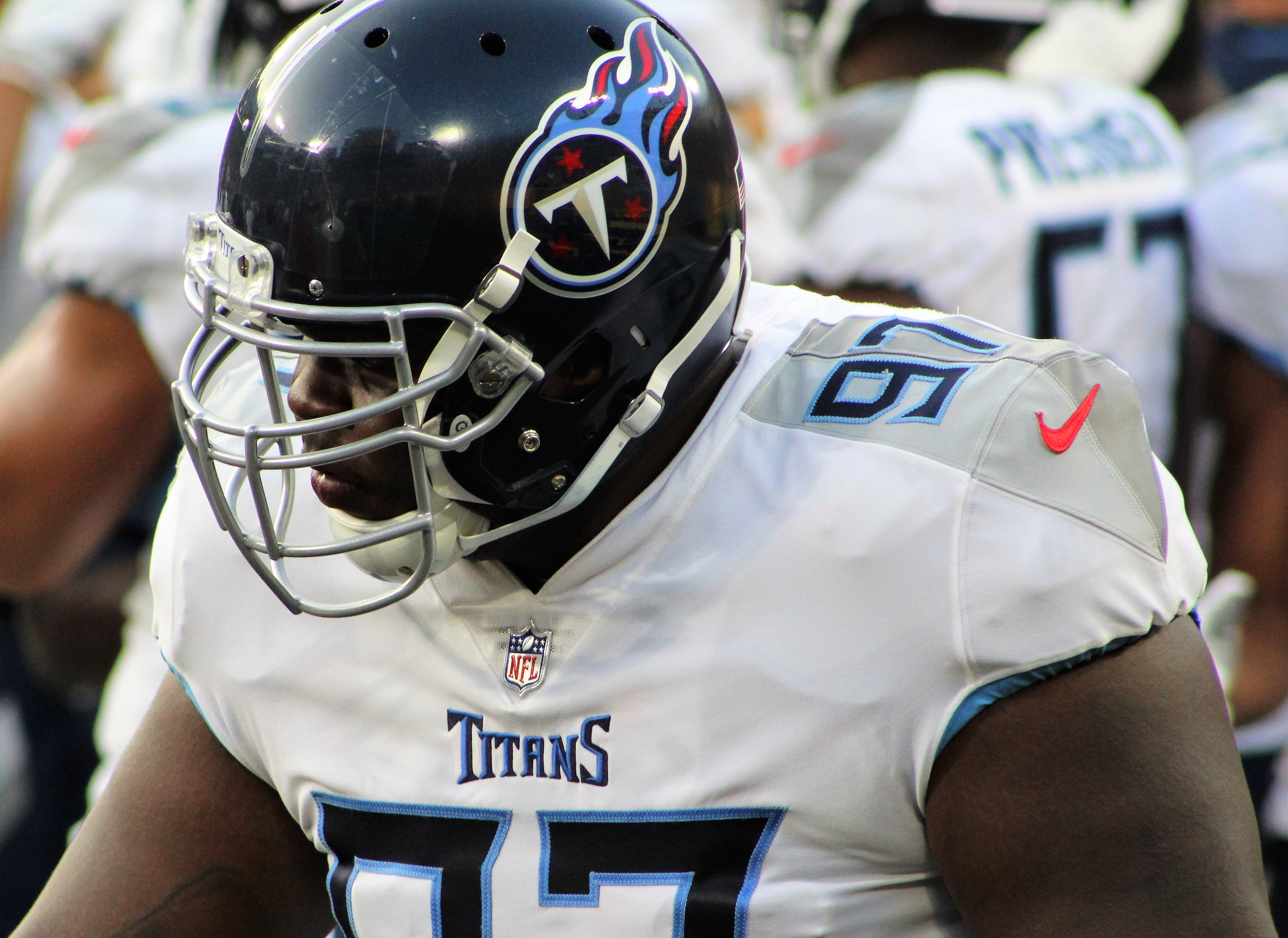 Du’Vonta Lampkin, Tennessee Titans at Green Bay Packers (Preseason), August 9, 2018